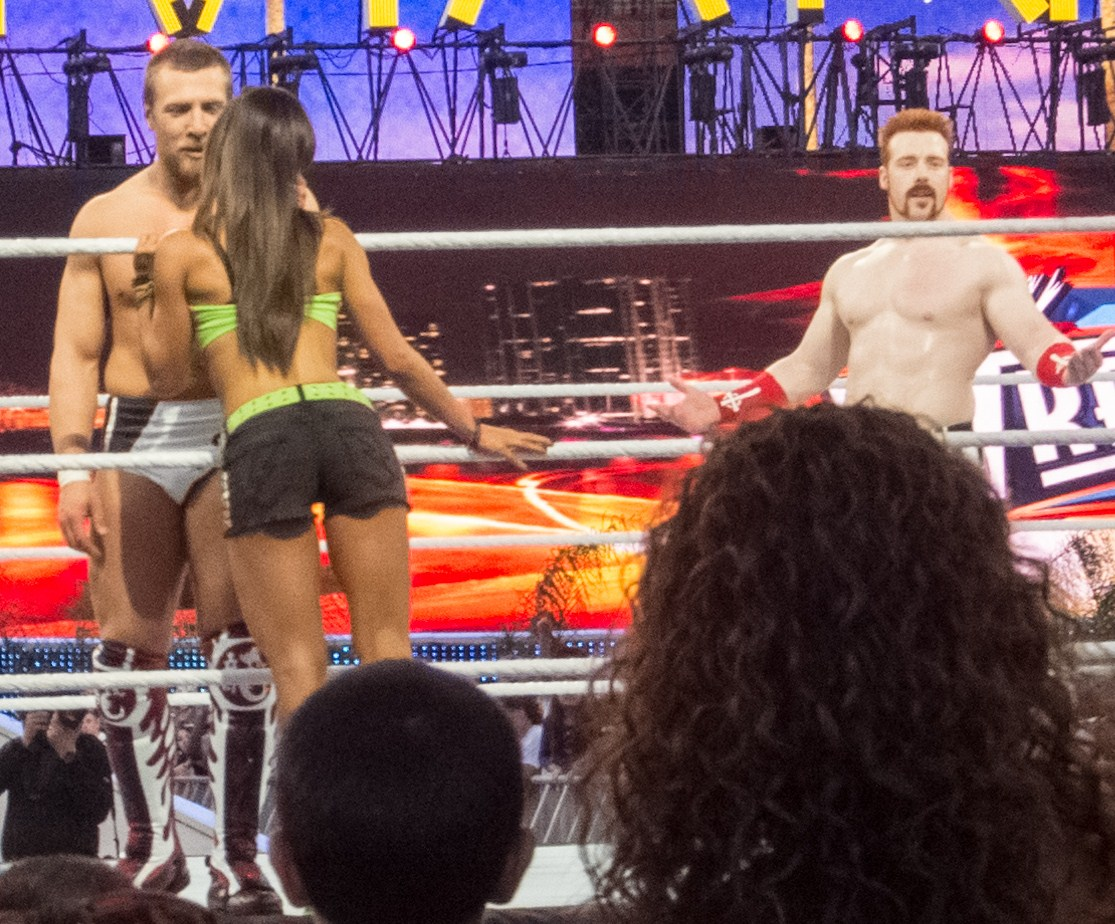 Daniel Bryan receives a good luck kiss from AJ while his opponent Sheamus lurks in the background at WrestleMania 28